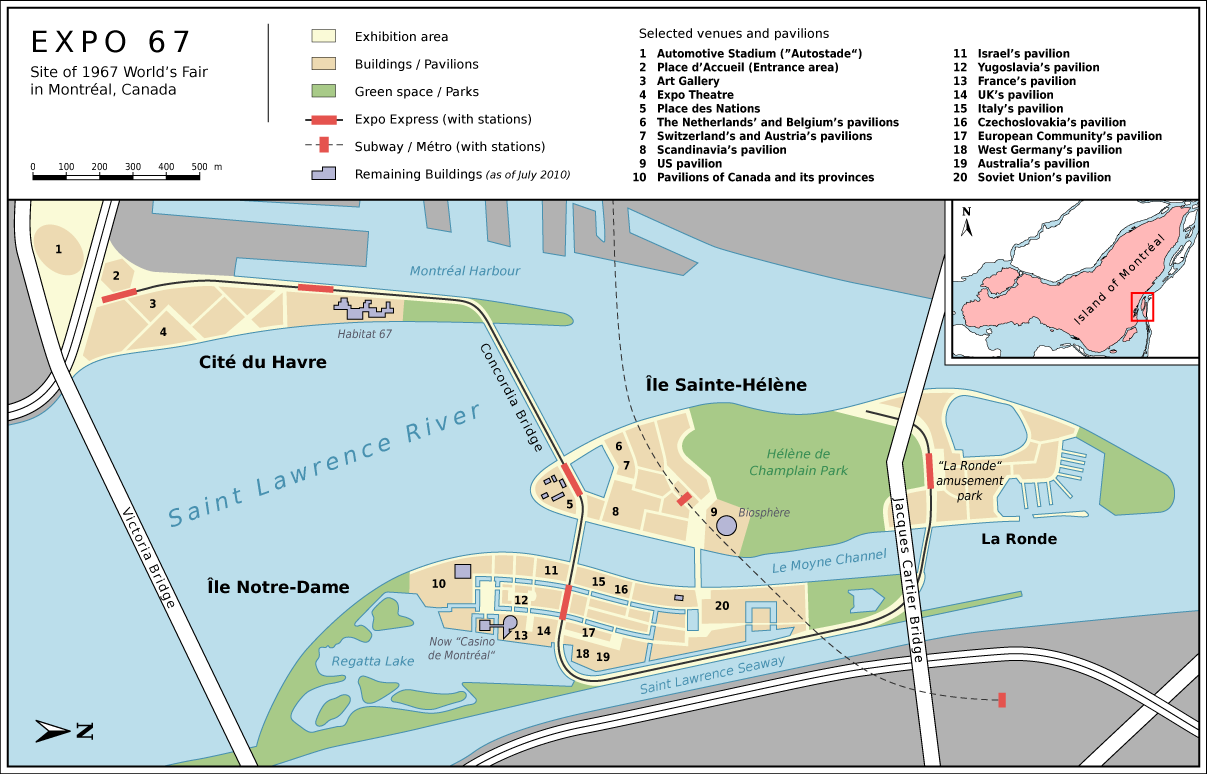 Map of Expo 67 in Montréal, Canada, highlighting 20 of the 90 pavilions (English Version)